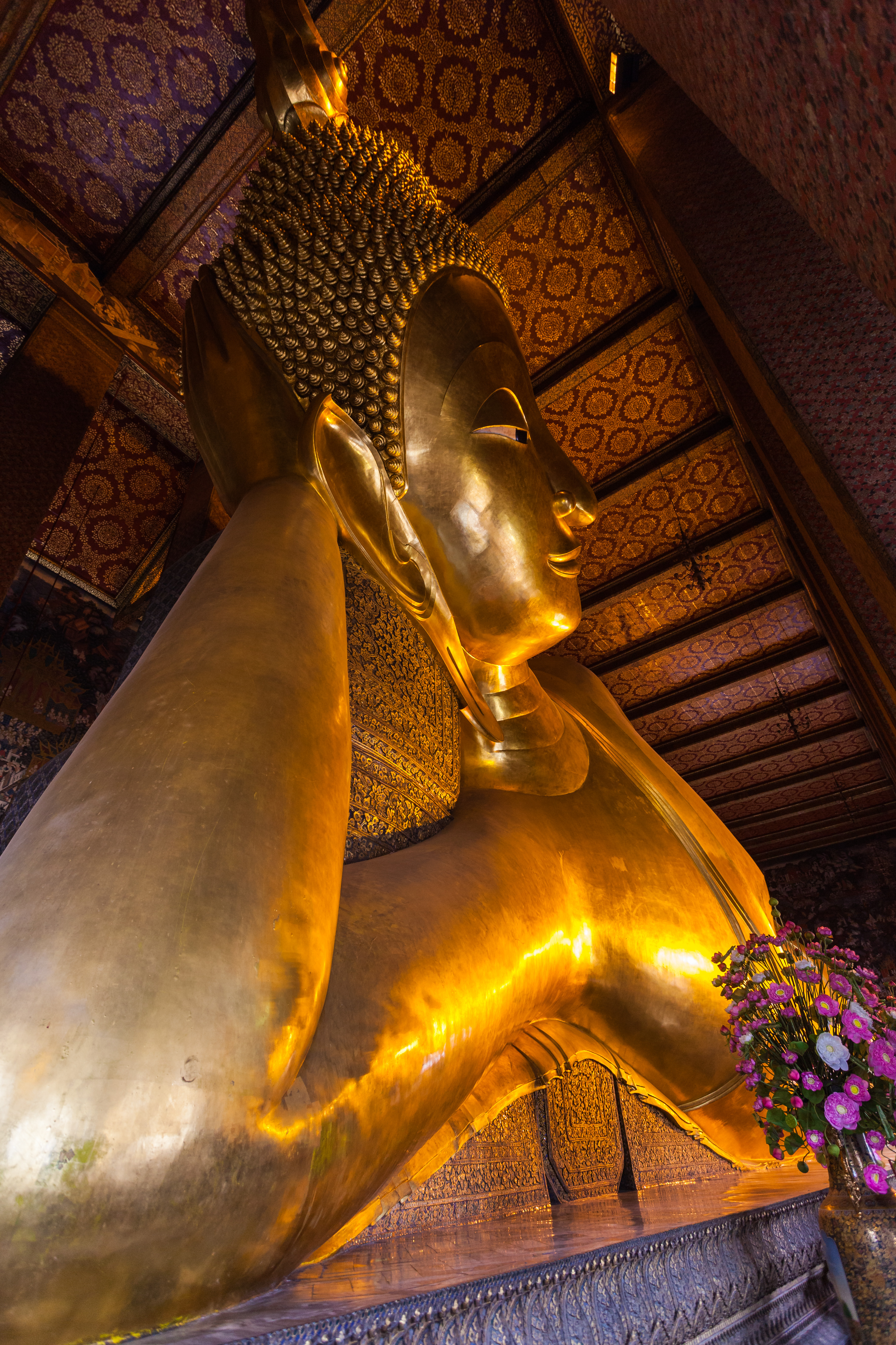 Reclining Buddha statue, Wat Pho, Bangkok, Thailand